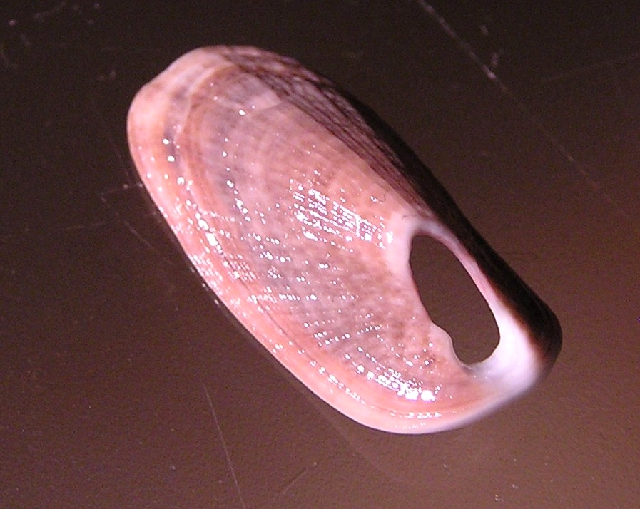 Amblychilepas oblonga C. T. Menke, 1843, a keyhole limpet from the family Fissurellidae; Tasmania